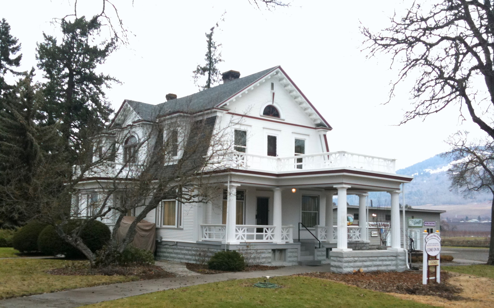 The historic Martin and Carrie Hill House (built 1910), located at 2265 Highway 35 near Hood River, Oregon, United States, is listed on the US National Register of Historic Places. It is also known as the Gorge White House, a tourist-oriented business, and is open to the public under that name.